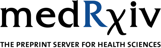 bioRxiv logo: a preprint server for medical research